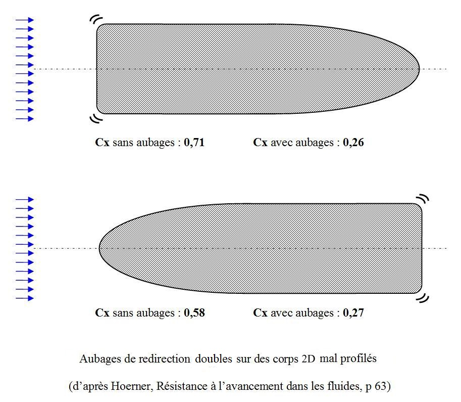 Turning vane on poorly profiled 2D bodies, according to Hoerner. Cd's with or without these vanes are indicated. In the case of mounting such turning vanes on the steep front edge, the forces on all the vanes are oriented forward and participate in the reduction of drag.